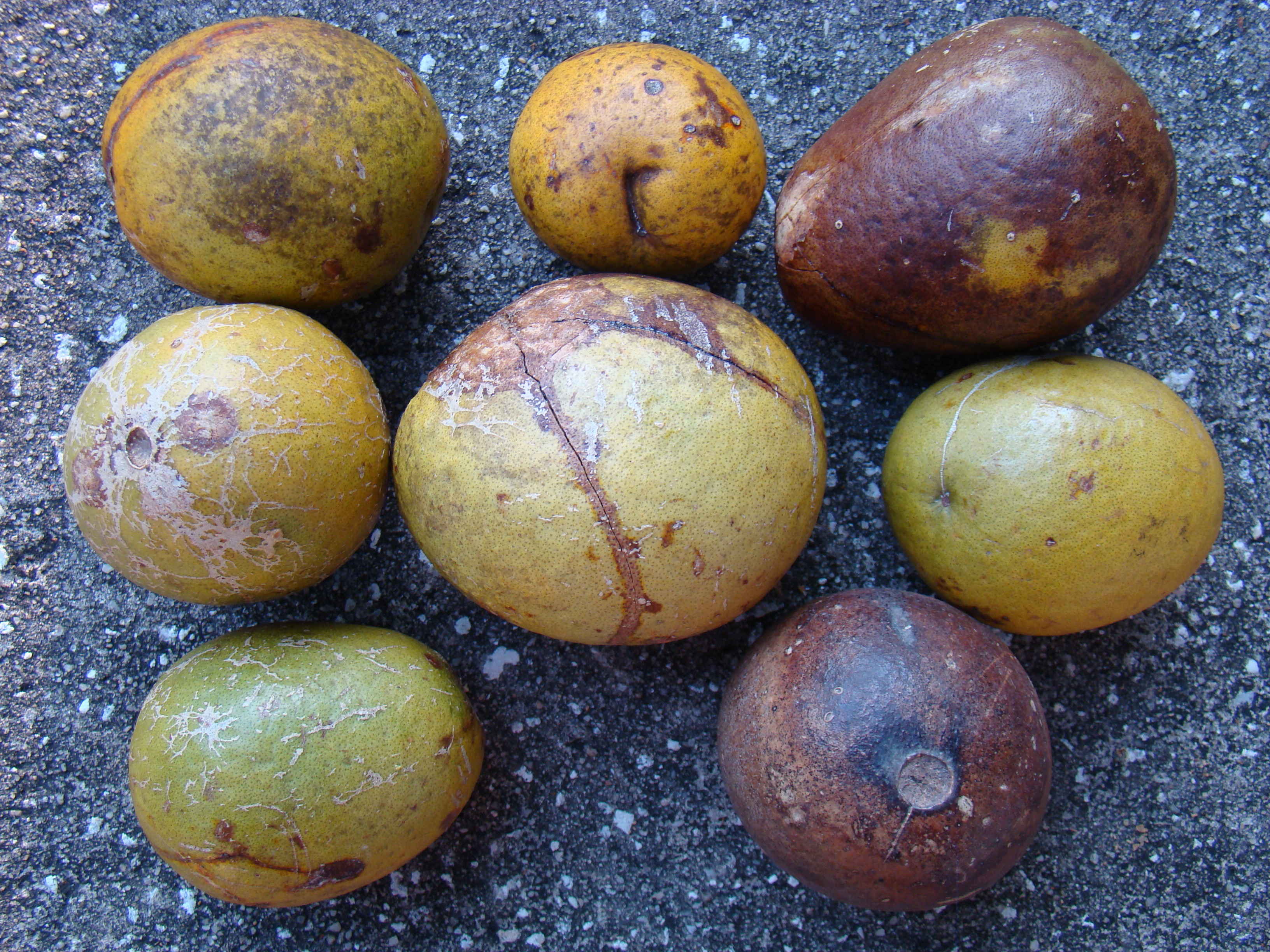 A display of ripe, semi-ripe, over-ripe and dry Bael fruits collected from the grounds of the Mounts Botanical Garden, West Palm Beach, Florida.